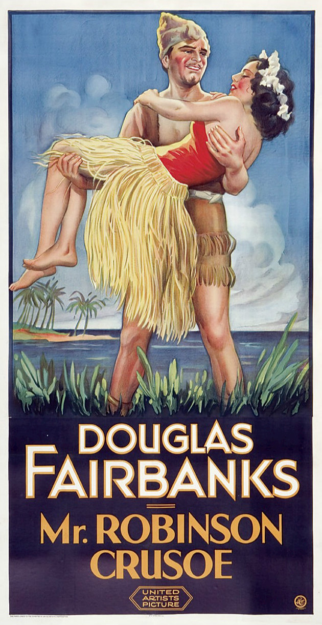 Poster for the 1932 film Mr. Robinson Crusoe. Renewal searches were done in both film and artwork for the years 1959 and 1960. There were no listings for the film's title, United Artists, or the H.C. Miner Company, who printed the poster. There's no evidence of current copyright.